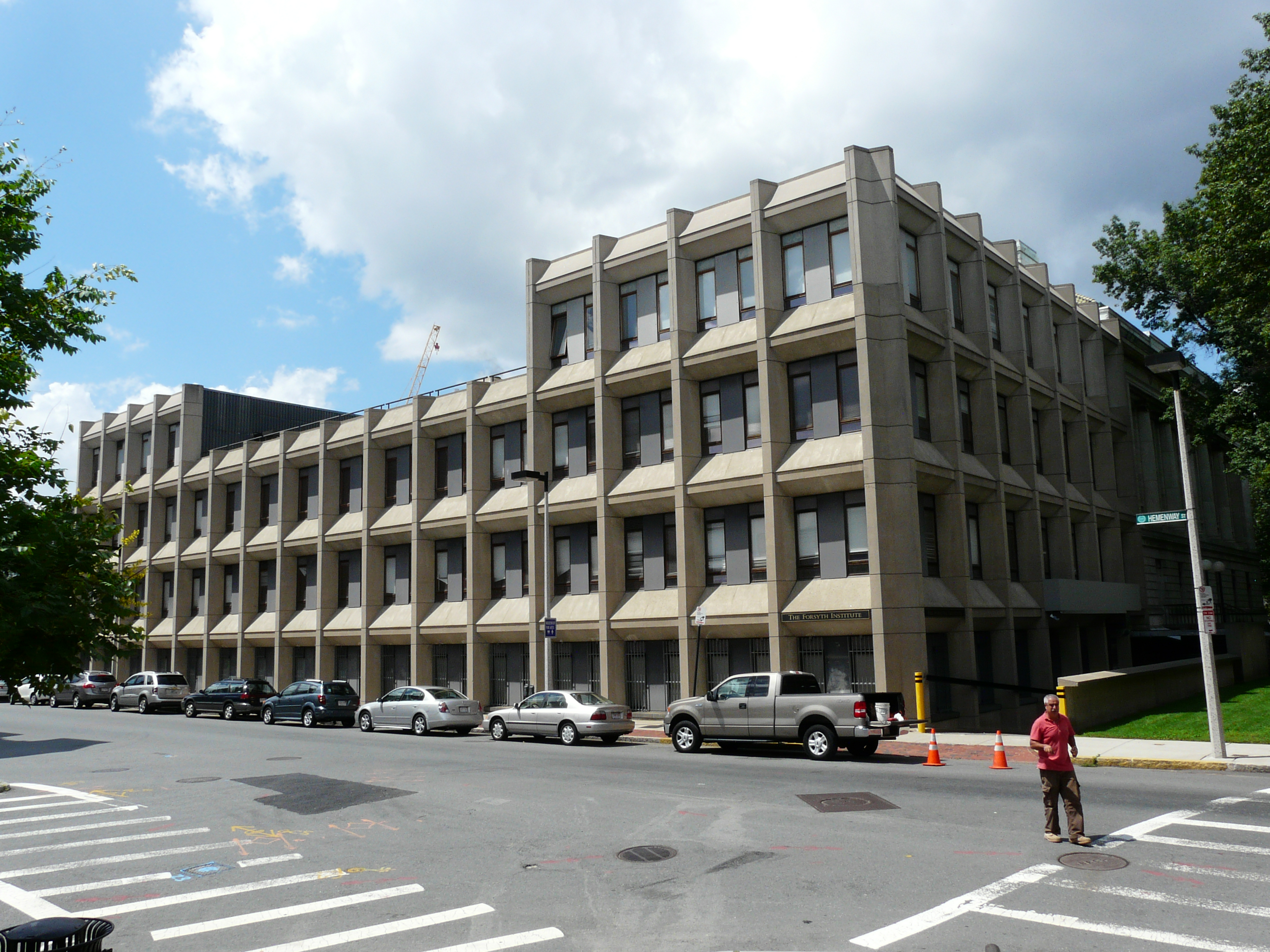 140 The Fenway in Boston, Massachusetts, also known as The Forsyth Institute